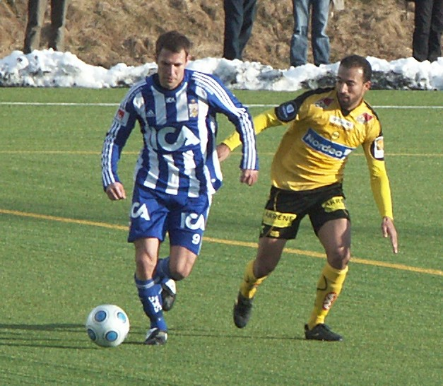 Stefan Selakovic of IFK Göteborg trying to pass Khaled Mouelhi of Lillestrøm in a friendlie match at Backavallen in Göteborg March 28th, 2009.